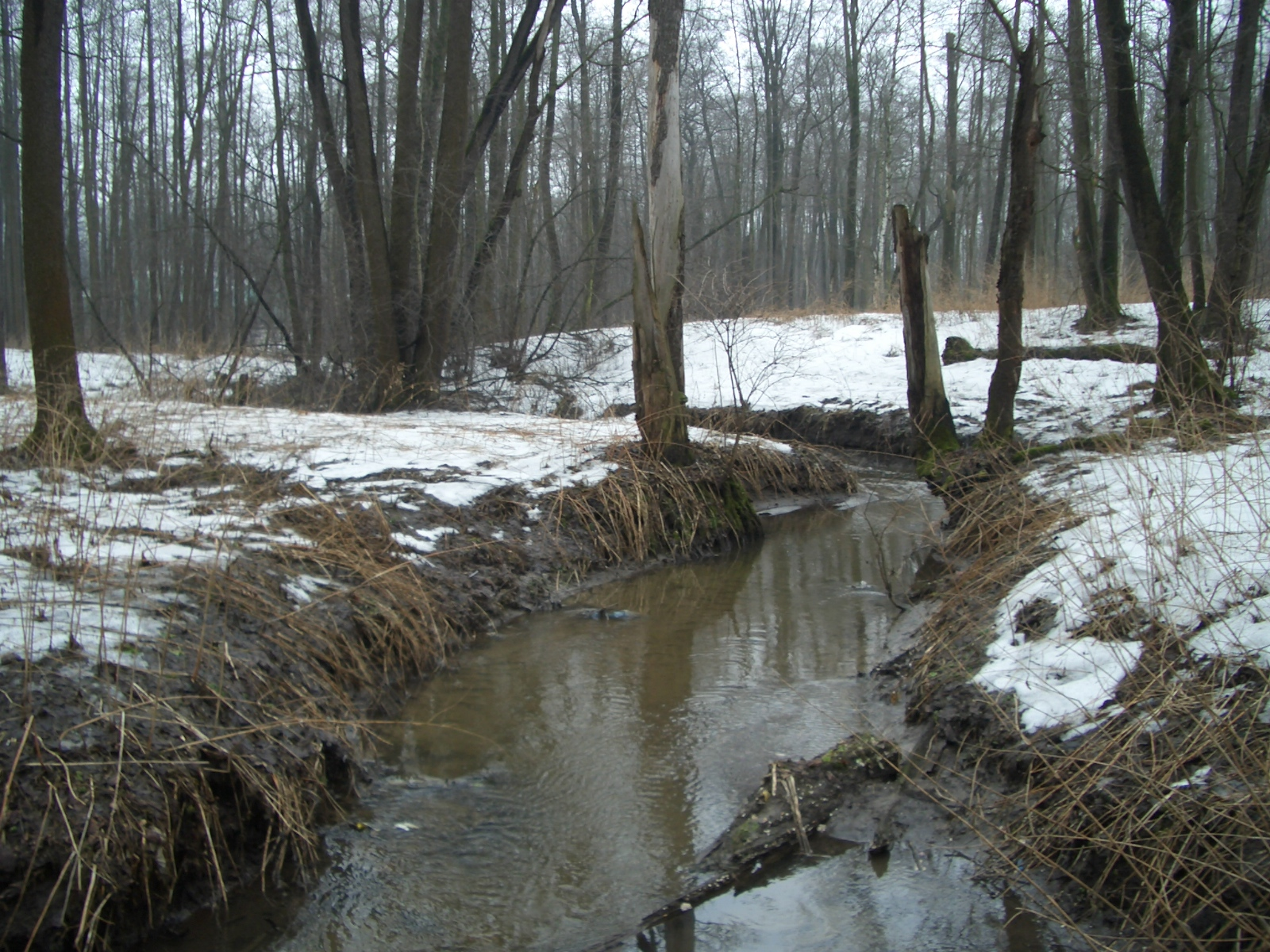 Black Stream (Чёрный руче́й) in Serebryanka drainage basin, eastern Moscow.